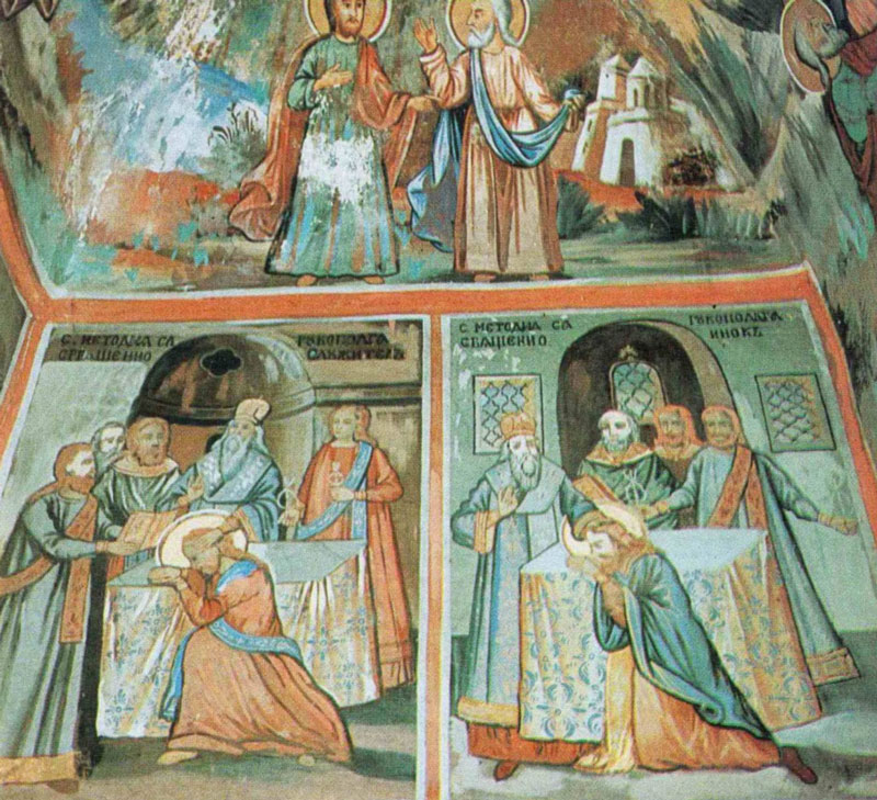 Arapovo Monastery Fresco